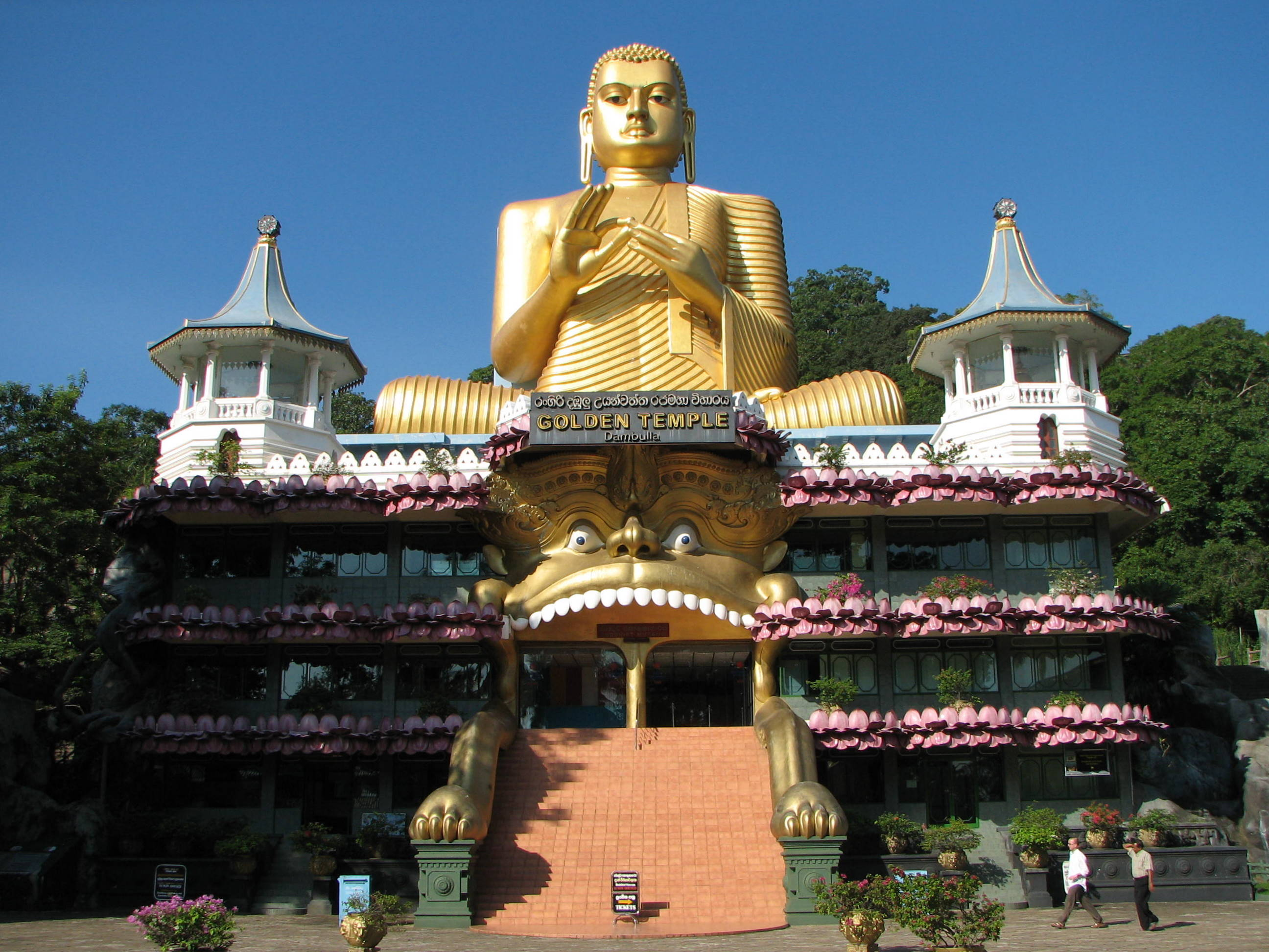 Golden Temple building, Dambulla, Sri Lanka